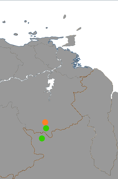 Arutani-Sape languages of Venezuela and Brasil. Arutani is spoken in Venezuela and Brasil, Sape only in Venezuela.